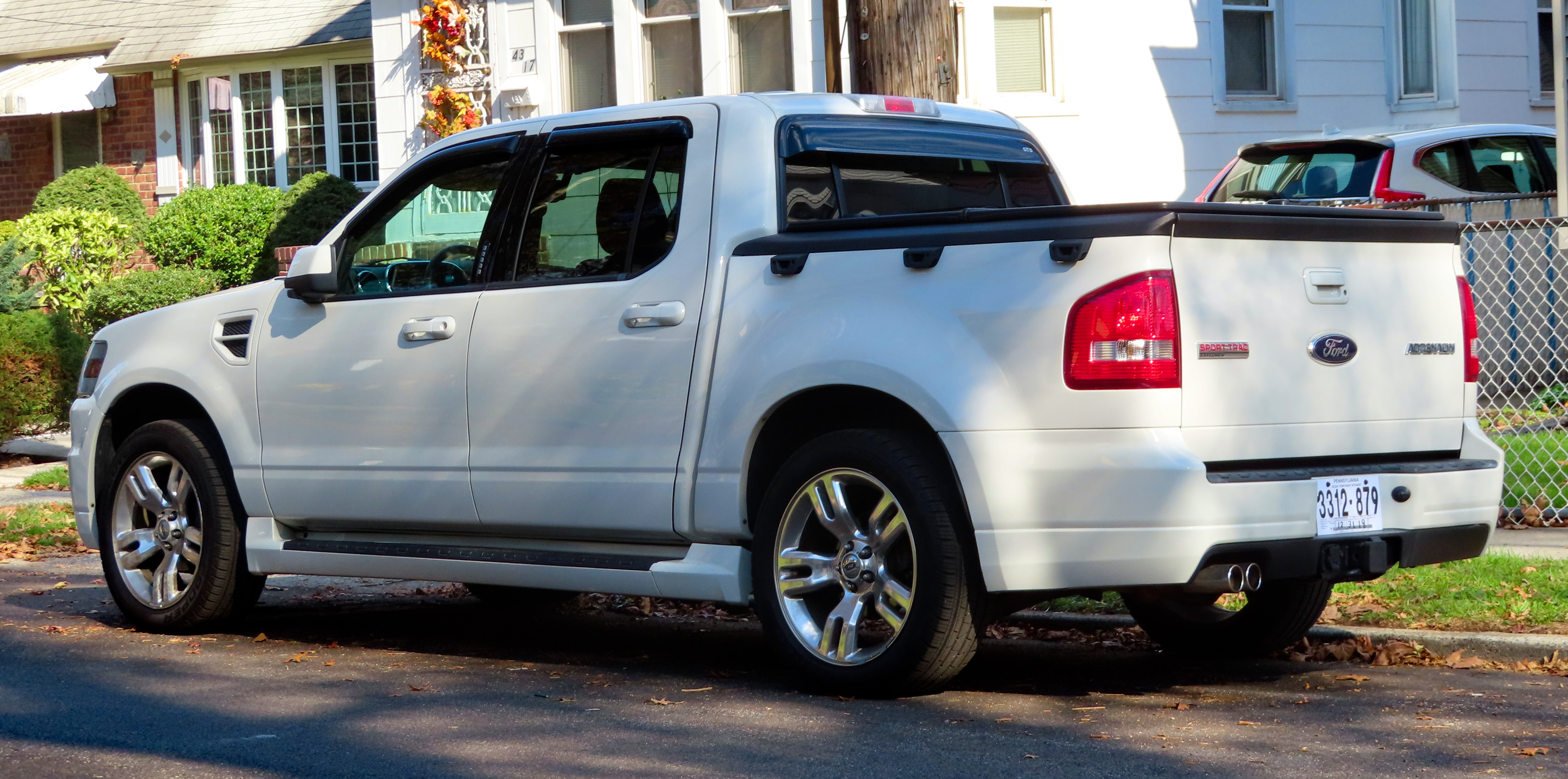 A 2009 Ford Explorer Sport Trac Adrenalin photographed in Bayside, Queens, New York, USA